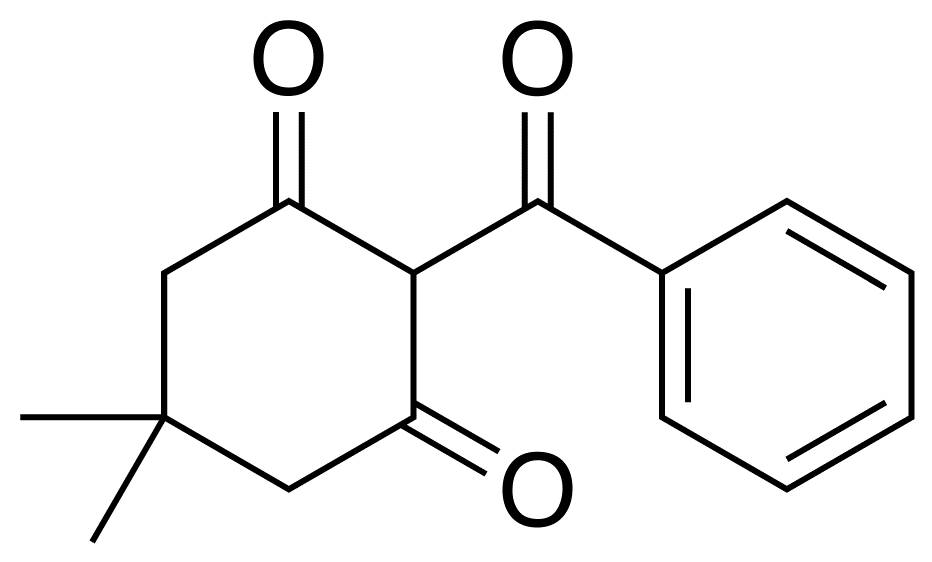 Skeletal structure of an aroyl triketone, the parent structure of many P-hydroxyphenylpyruvate dioxygenase inhibitors